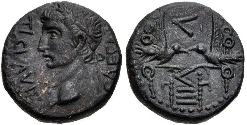 Phoenicia, Berytus (nowdays Beirut). Claudius. AD 41-54. Æ 20mm (8.92 g, 12h). Legionary issue. Laureate head left Two aquilae facing one another; two signa behind, vertical V/VIII between. RPC 4547; Rouvier 509; SNG Copenhagen 94; BMC 75-6. EF, dark brown patina. Exceptional quality for issue.